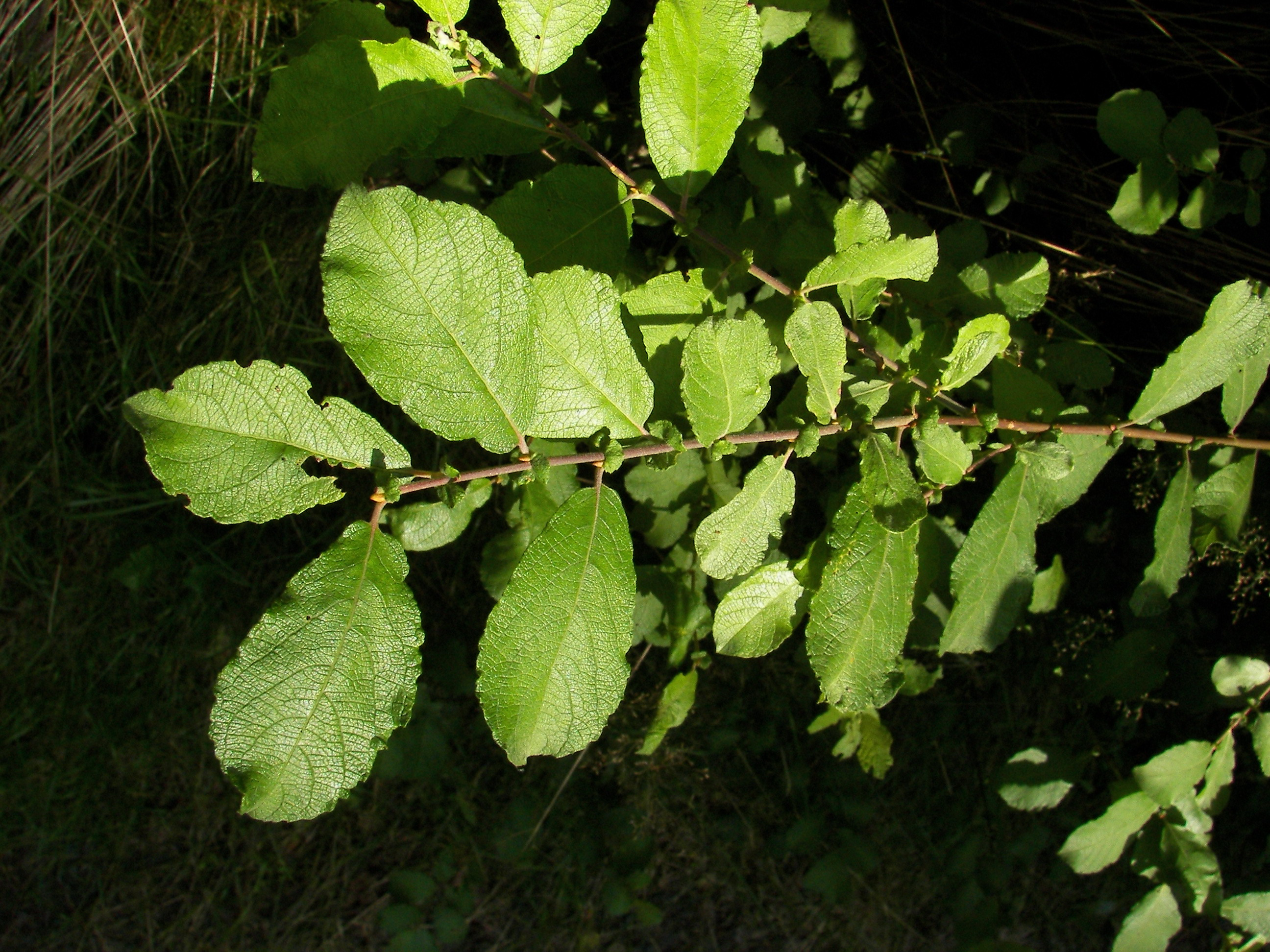 Leaves of Salix aurita, Location: Franzosenwiesen, Burgwald, Hesse, Germany